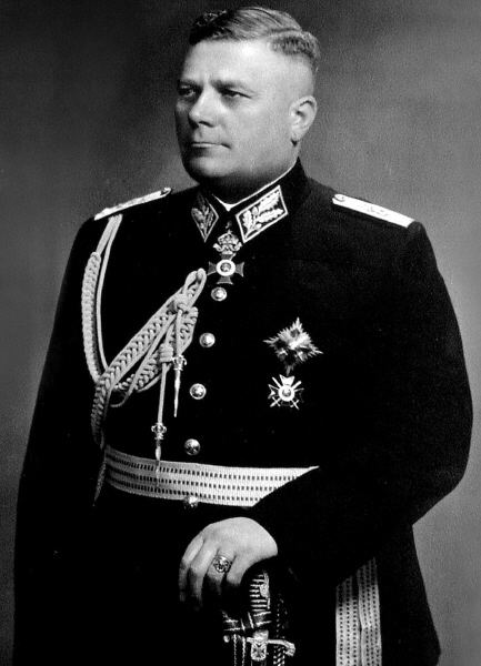 Image of Hristo Lukov in uniform